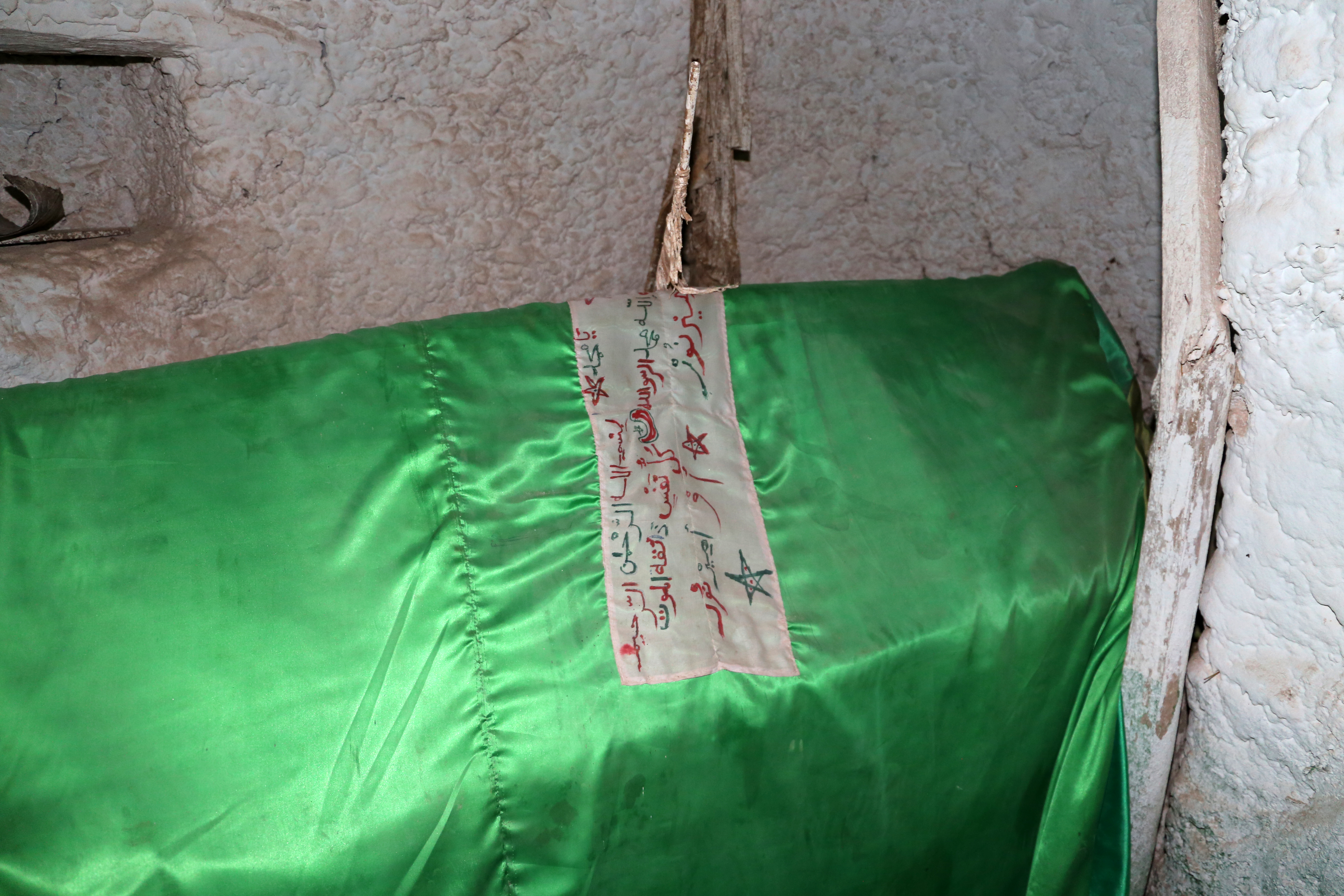 Tomb of Emir Nur ibn Mujahid